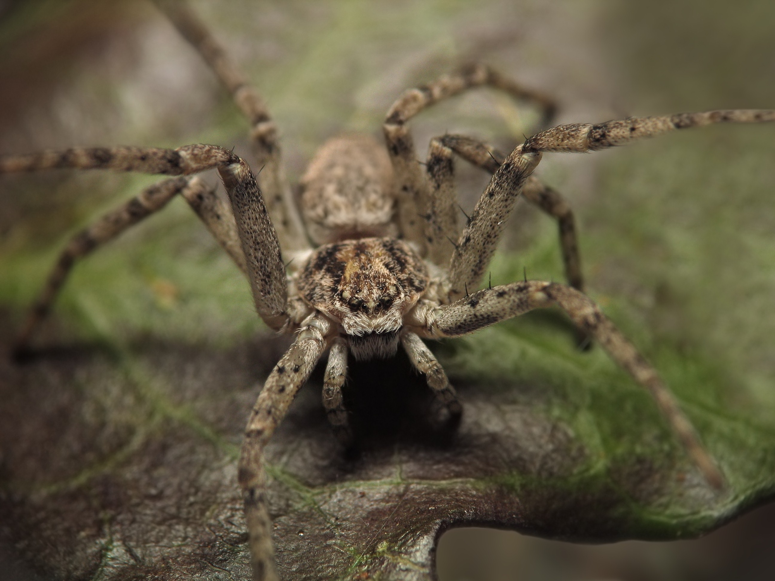 Running crab spider (family: Philodromidae) on a leaf; frontal view.